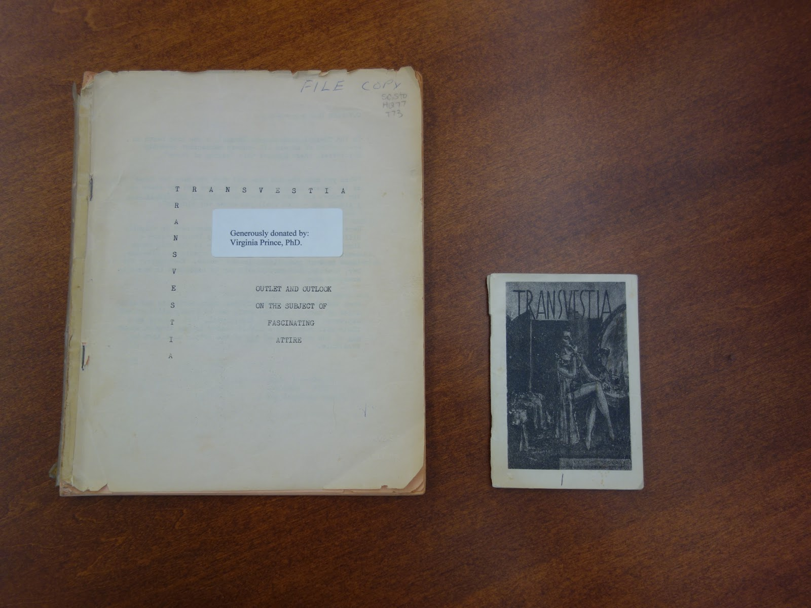 Some issues of Transvestia, for the sake of concealability, were printed on pamphlets that could be hidden within the palm of one’s hand, or in one’s pocket. Materials from The Transgender Archives at the University of Victoria